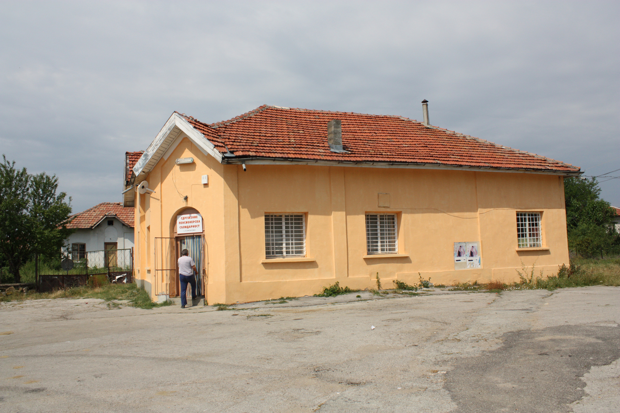 Senior club in Sokolovo, Bulgaria